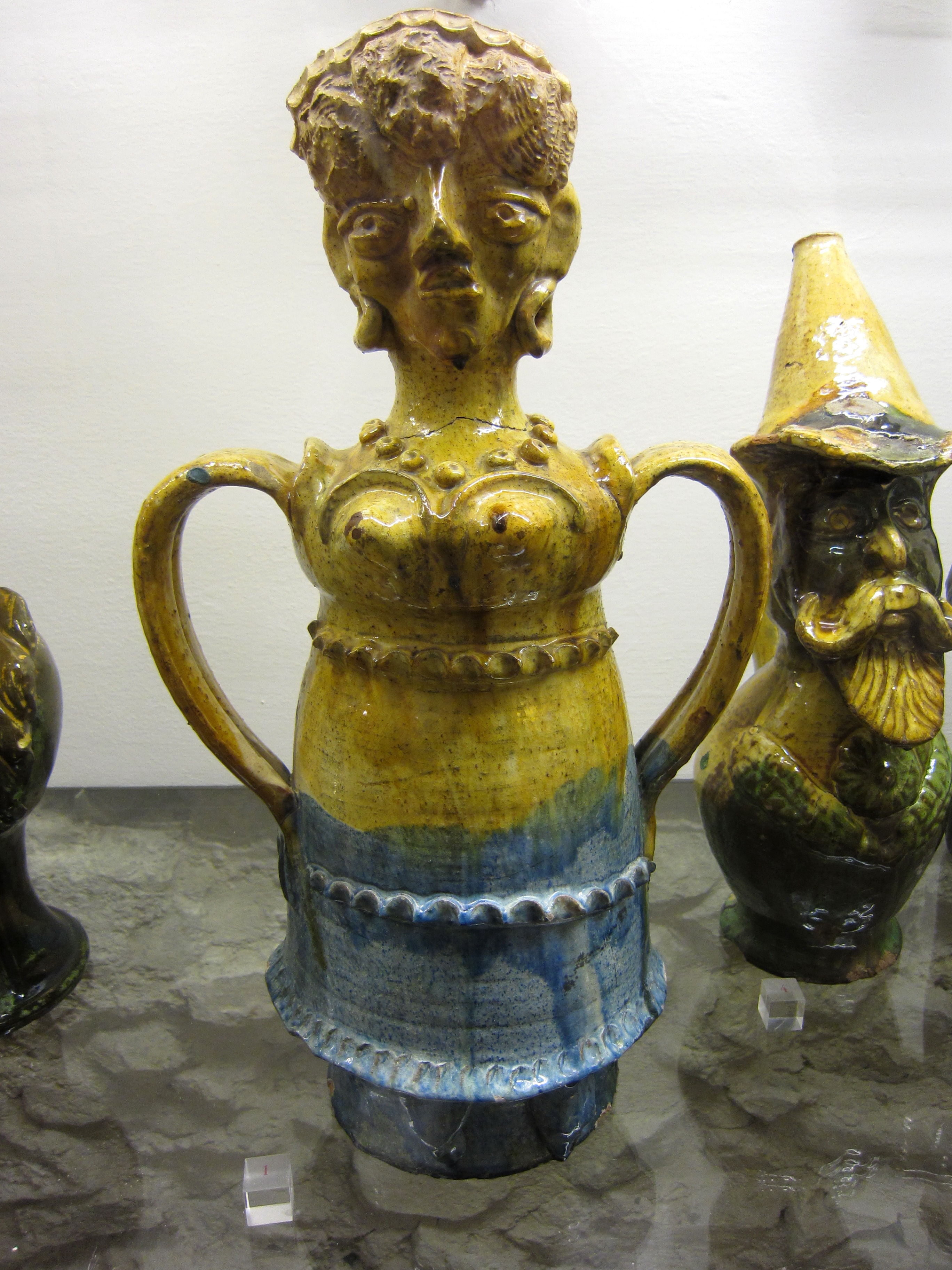 Slipware flask (19th-20th century) by the manufacturing of Seminara - Wine Museum of Torgiano – Italy.